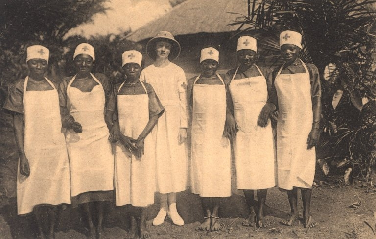 Nurse-midwives of the School of the Red Cross — in Pawa, colonial Belgian Congo (Democratic Republic of the Congo).